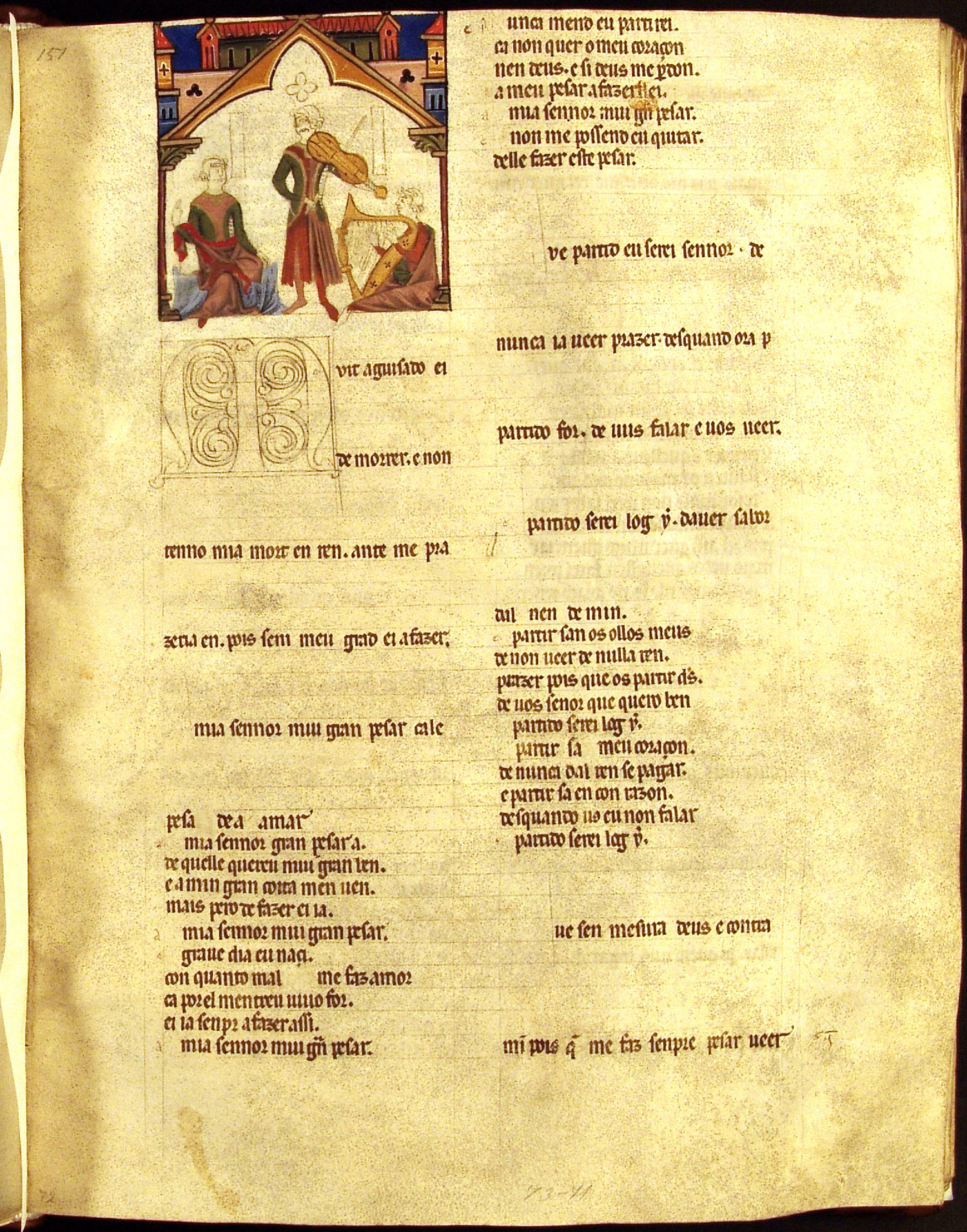 Cancioneiro da Ajuda manuscripts